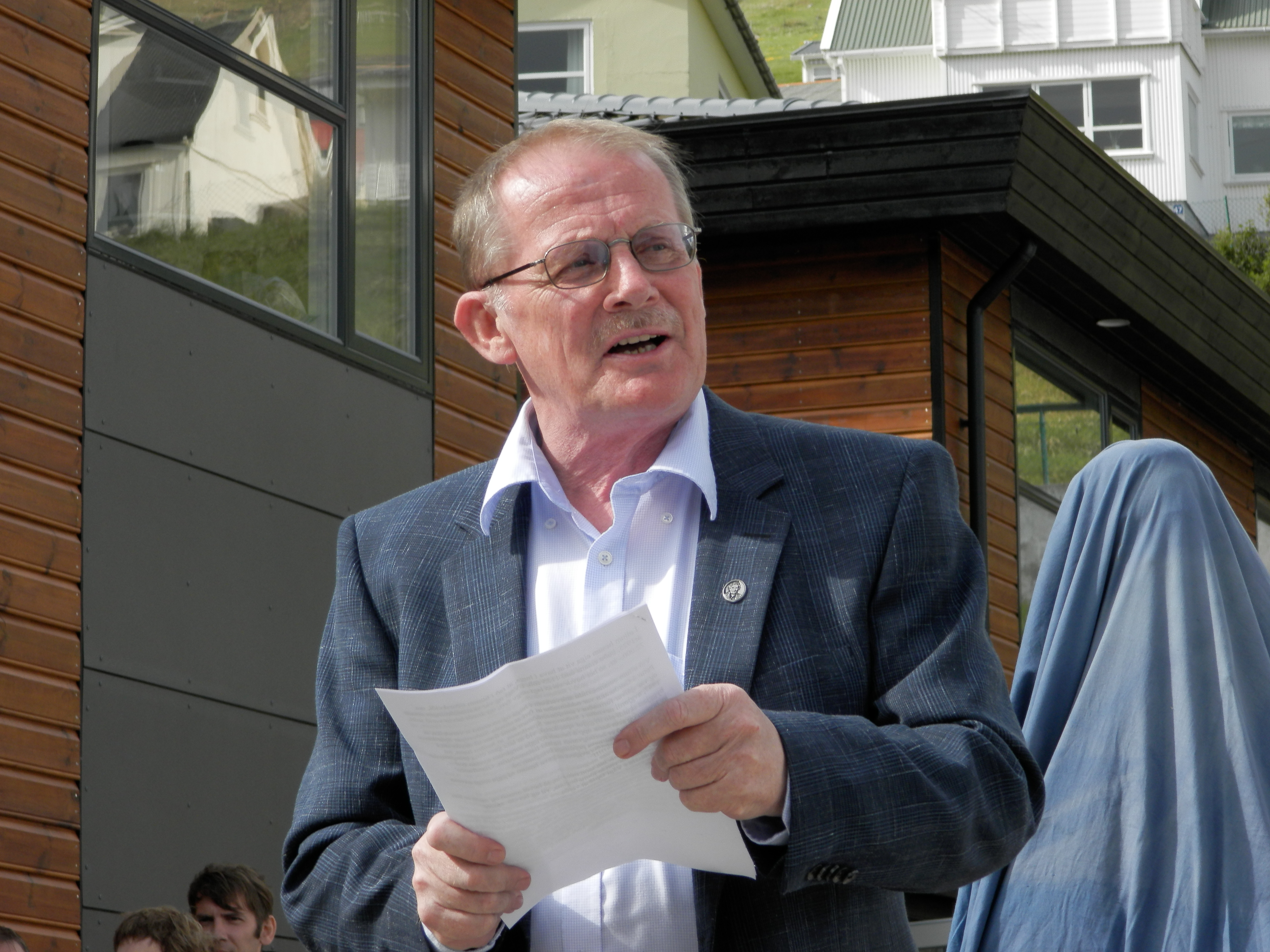 Óli Holm, board member of Suðuroyar Sparikassi, gave a speech on 21 June 2012, when Petursplássið in Vágur opened. Føroyskt: Óli Holm, nevndarlimur í Suðuroyar Sparikassa, heldur her røðu í samband við, at Suðuroyar Sparikassi hevði gjørt eitt nýtt pláss, Petursplássið, beint eystanfyri Sparikassan, har standmynd av Petur á Gørðunum (Petur Dahl) varð avdúkað. Petur Dahl (1878-1947) var ein av stovnarunum av Suðuroyar Sparikassa, hann var fyrsti borgarstjórin í Vágs kommunu og var við til at seta á stovn fleiri slóðbrótandi hendingar, sum t.d. at Føroya fyrsta elverk, vatnorkuverkið í Botni, varð bygt og tikið í nýtslu í 1921, Vágs Havn varð gjørd í 1925 og at nýggi tráðbanin á Eiðinum varð gjørdur og tikin í brúk í 1929. Óli Holm hevur verið landsstýrismaður í mentamálum 2001-02 og forseti í FSF 2004-2008.